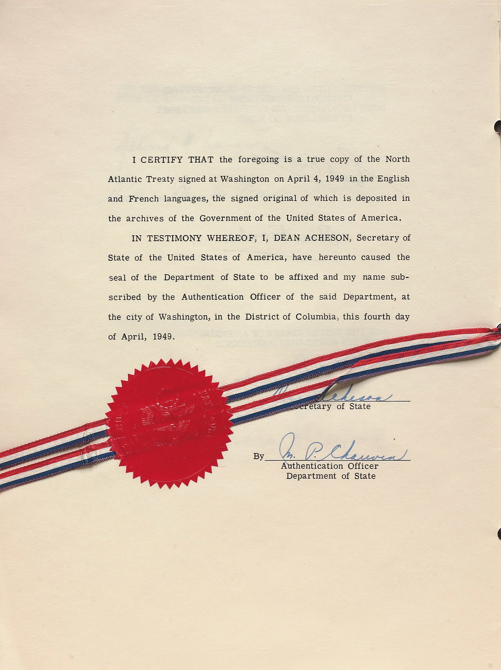 Authentication page for an official copy of the North Atlantic Treaty Organization treaty, signed and sealed by Secretary of State Dean Acheson.